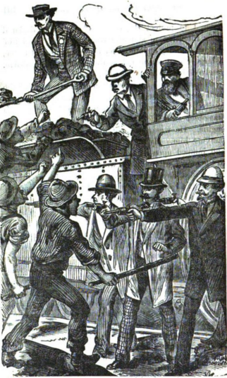 An engineer on the Delaware & Lacawanna Railroad, being unable to proceed with his train without a fireman, a passenger volunteers